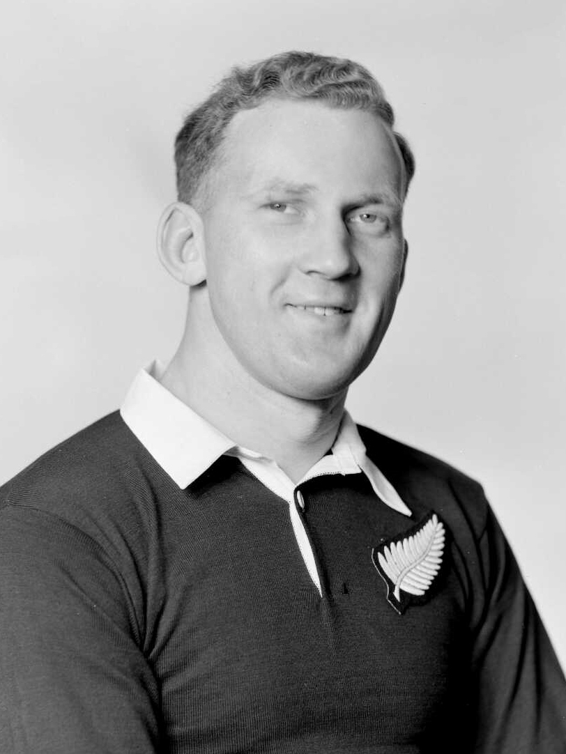 Hallard Leo 'Snow' White, member of the All Blacks, New Zealand representative rugby union team